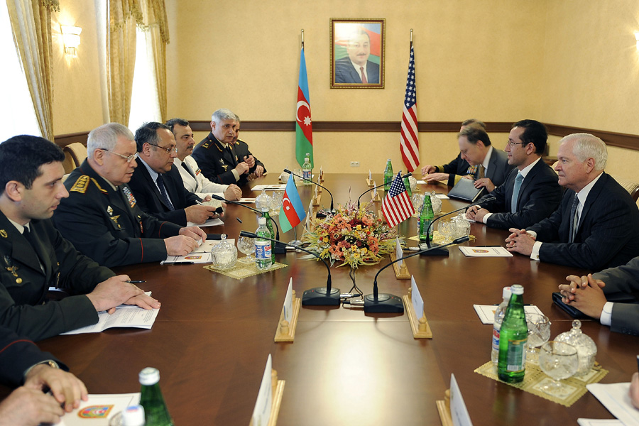 Defense Secretary Robert M. Gates, right center, and Azerbaijani Minister of Defense Colonel General Safar Akhundbala oglu Abiyev, left center, hold a meeting at the Ministry of Defense in Baku, Azerbaijan, June 7, 2010.